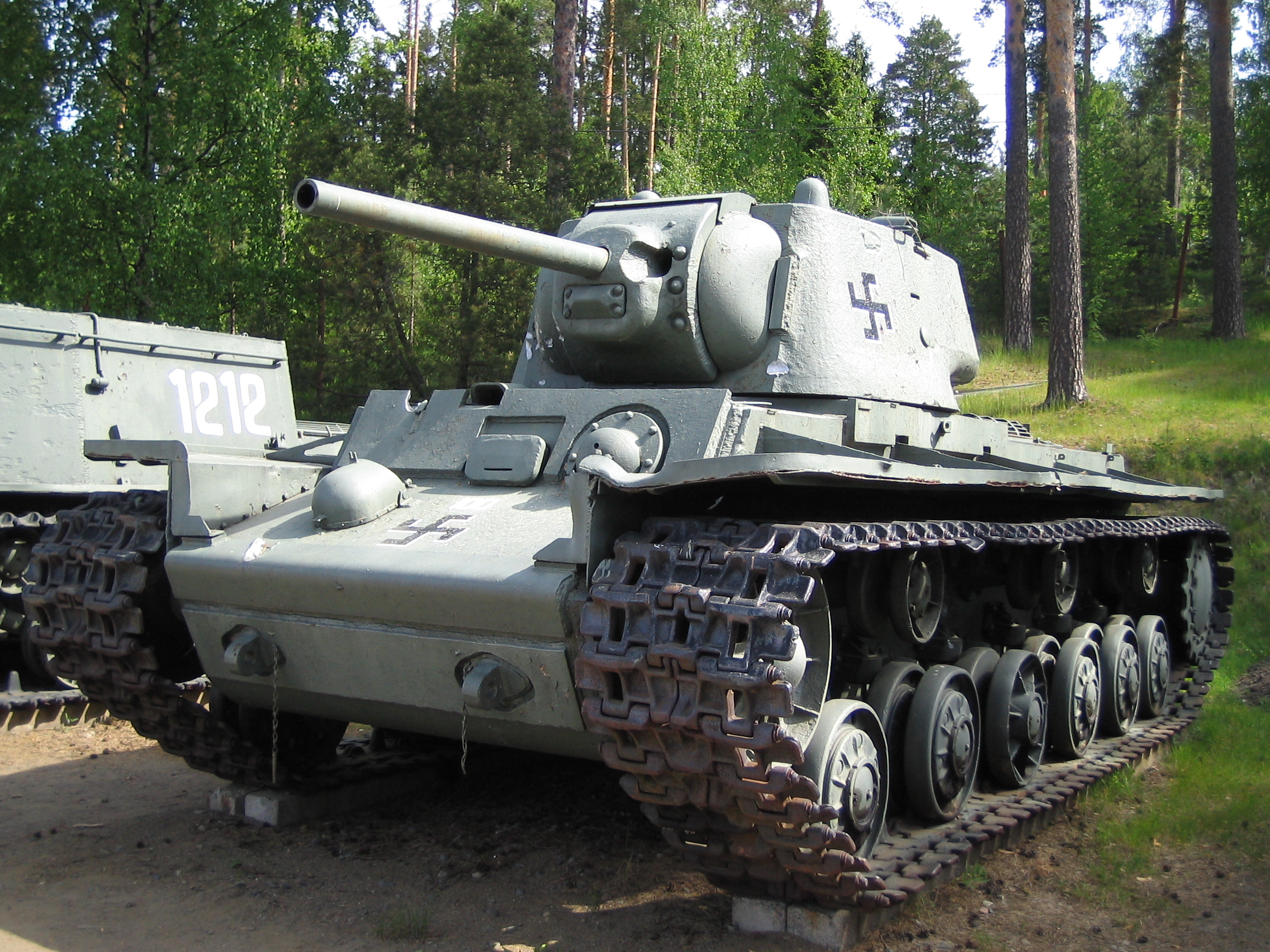 KV-1 m 1941 in Parola tank museum